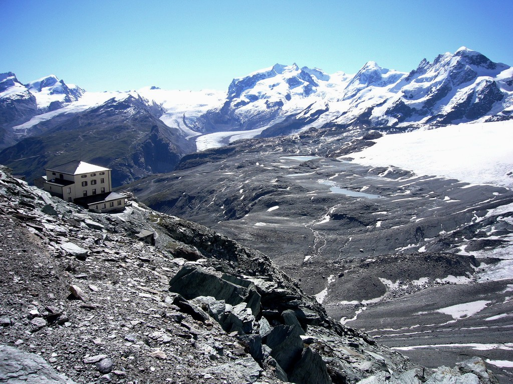 Hörnlihütte, at the foot of the Matterhorn, 3,260 m (10,700 ft): Rimpfischhorn, Strahlhorn, Findelgletscher, Stockhorn (and right below: Gornergrat), upper Gornergletscher, Monte Rosa (with Monte Rosagletscher on it), Grenzgletscher, Liskamm, Breithorn